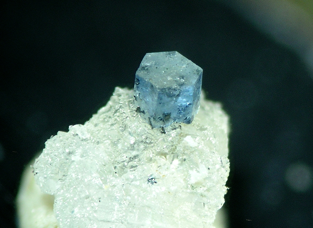 Bazzite (image width: 2.6 mm mm) Locality: Fibbia Mountain, Fontana, Central St Gotthard Massif, Leventina, Ticino (Tessin), Switzerland